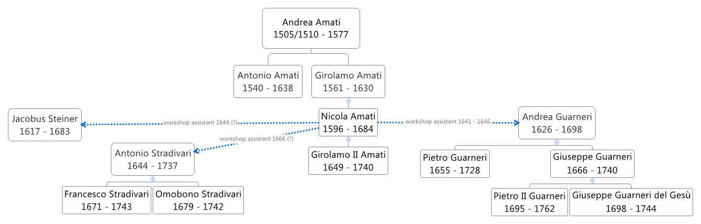 relations between violin makers' workshop